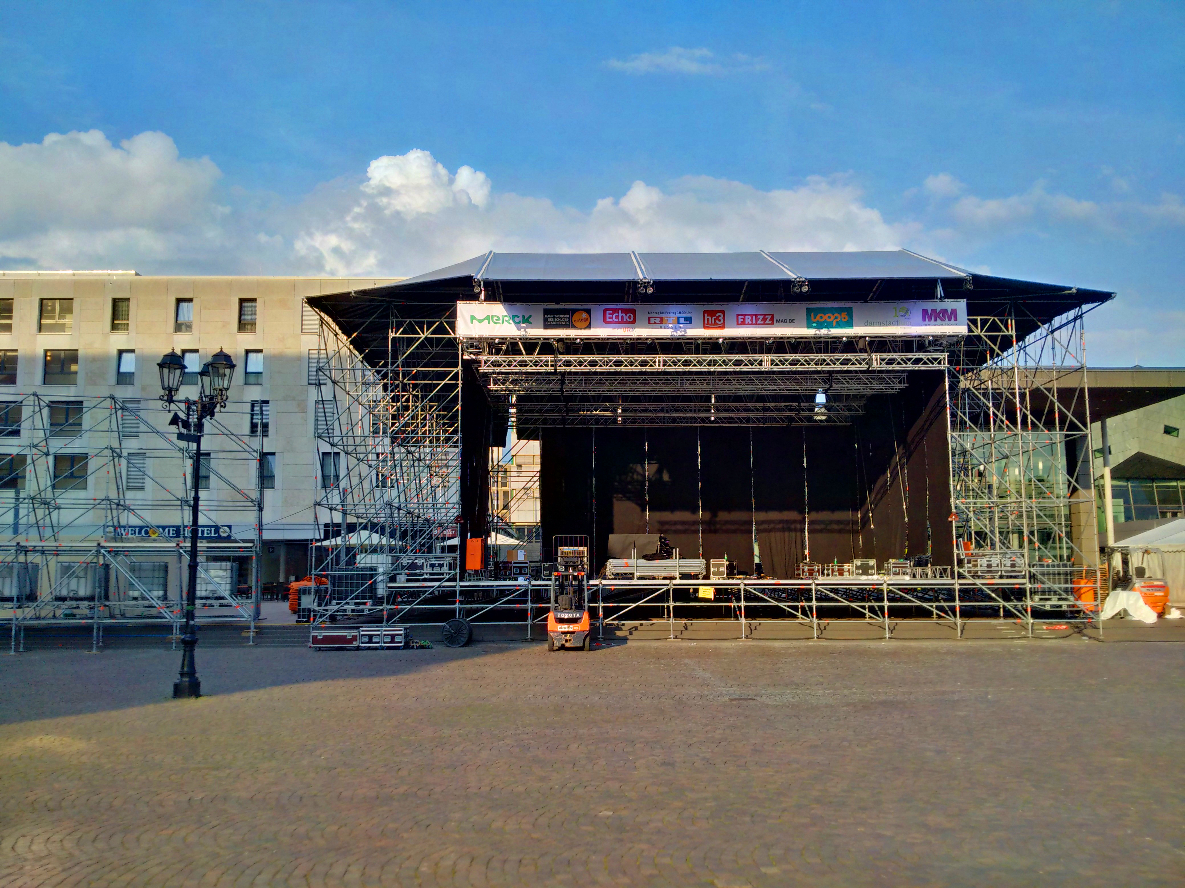 Schlossgrabenfest 2018 in Darmstadt: Build-up of the Main Stage on Karolinenplatz